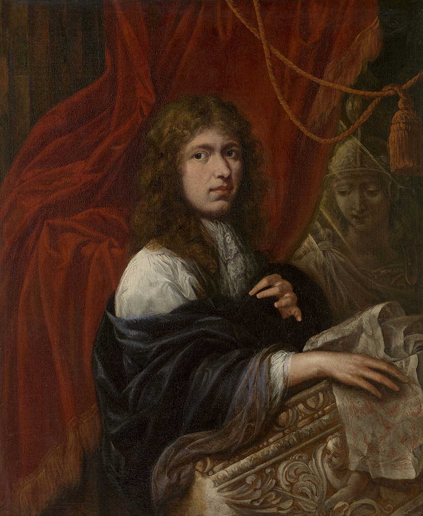 Zelfportret (Jan Baptist Herregouts, circa 1680); collection: Musea Brugge - Groeningemuseum